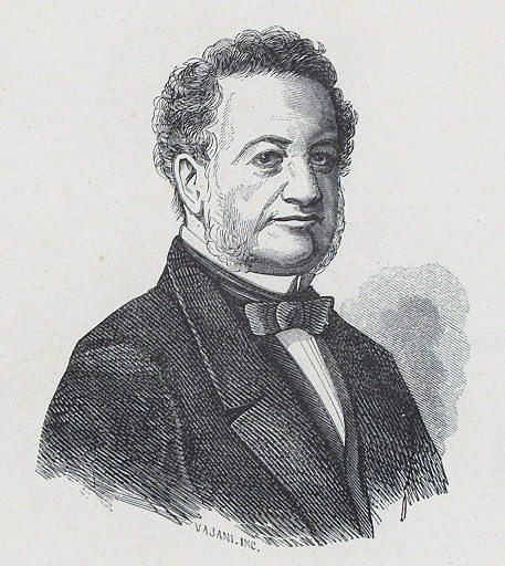 Depicted person: Domenico Abatemarco – Italian magistrate and politician